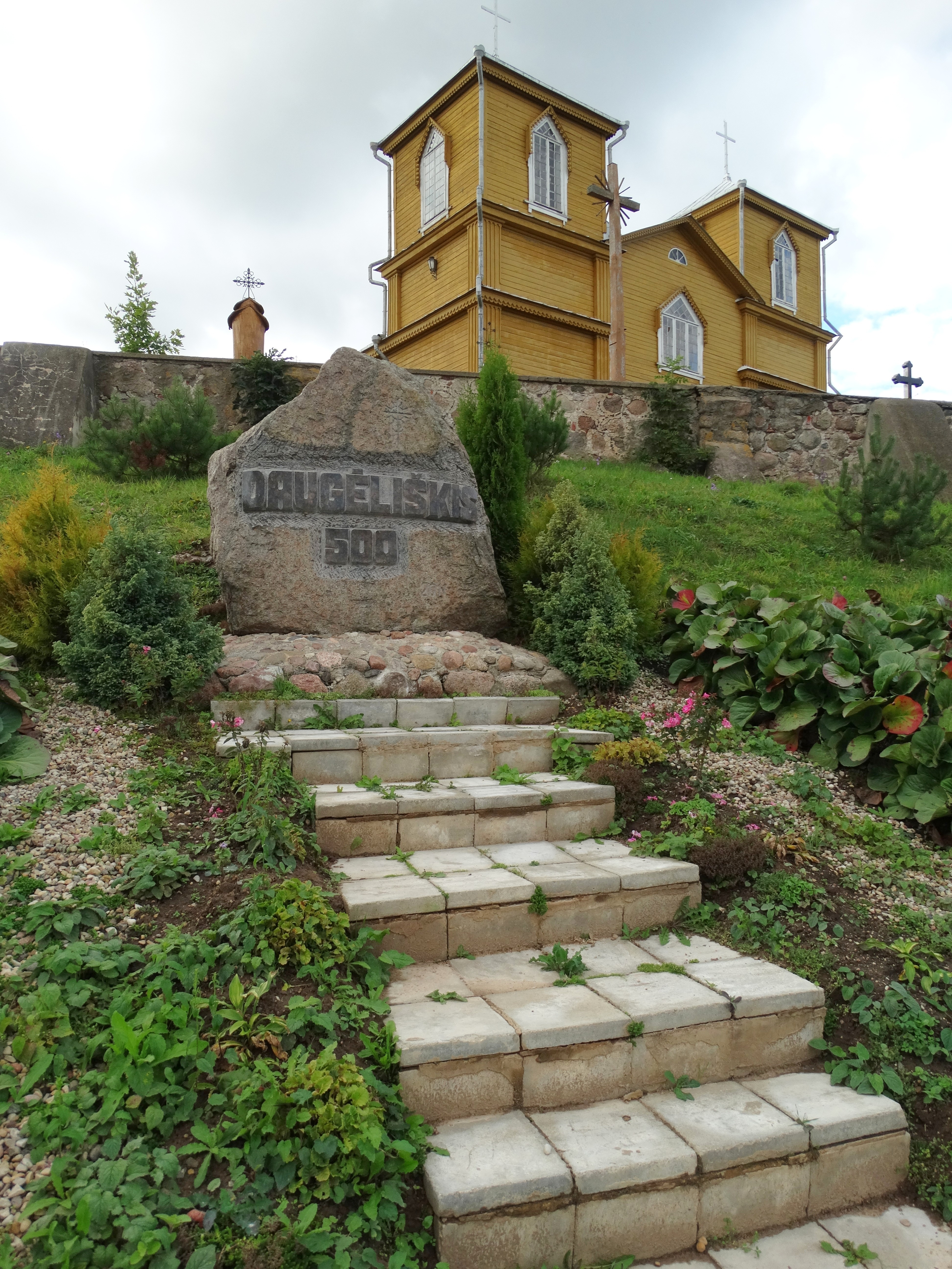 Inscribed stone, Naujasis Daugėliškis, Ignalina district, Lithuania